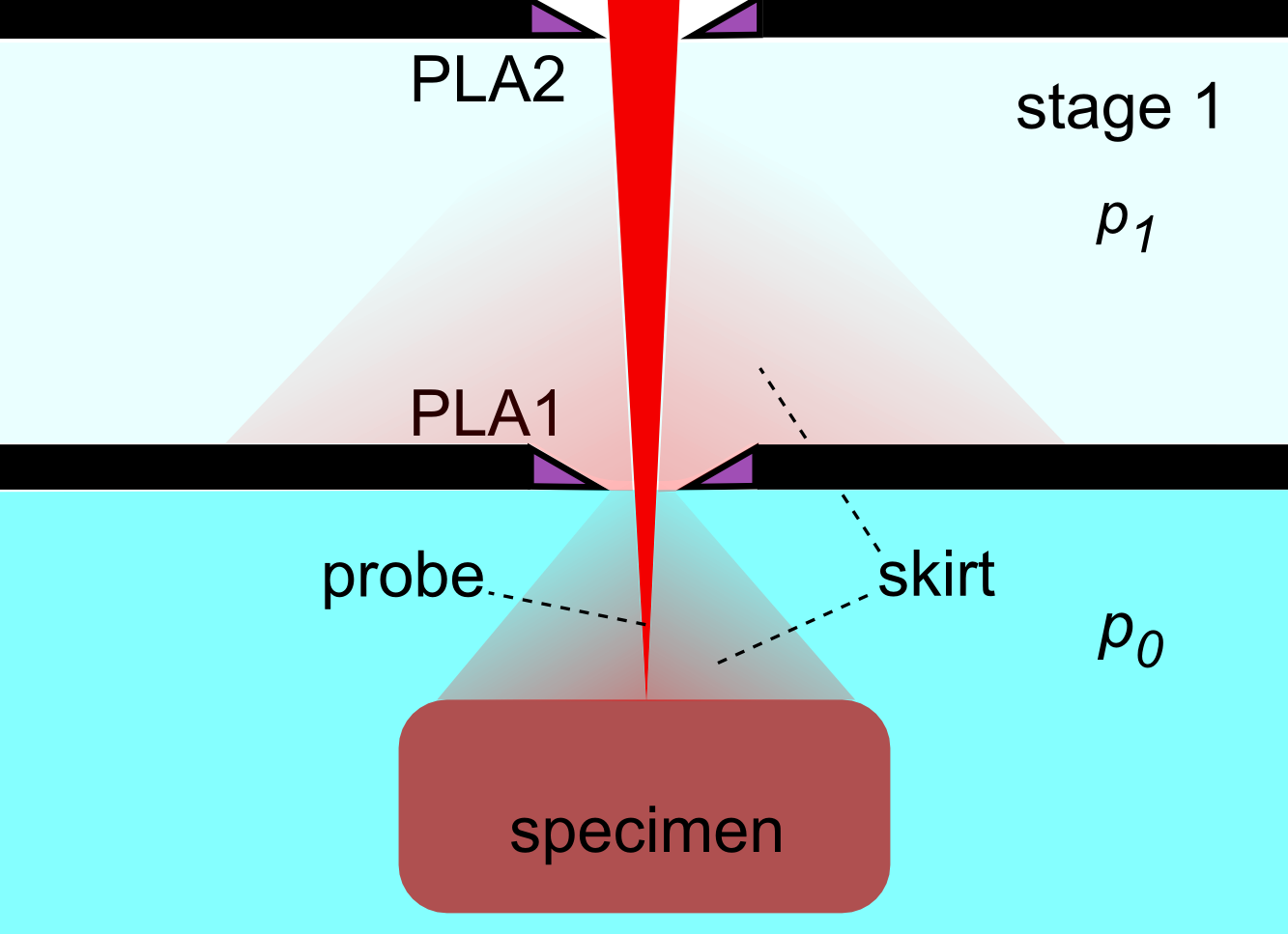 Electron beam transfer in ESEM from vacuum above, through differential pumping stage 1 at pressure p1 to chamber at pressure p0, creation of weak electron skirt above pressure limiting aperture PLA1 and final electron skirt surrounding the electron probe in the gas above specimen.